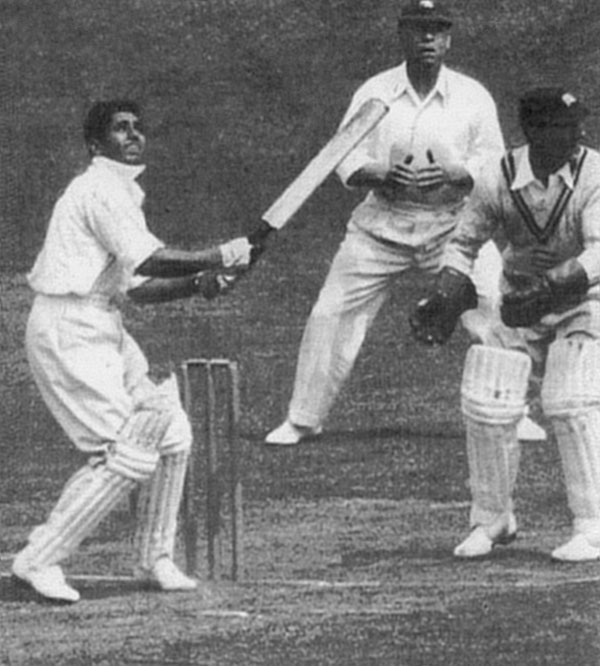 Lala Amarnath on his to 36 against Middlesex. Patsy Hendren is at slip and Fred Price is the wicketkeeper, Middlesex v Indians, Lord's, May 25, 1936.